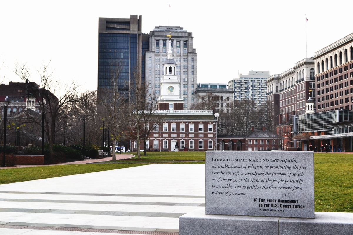 This image shows the inscription of the First Amendment to the U.S. Constitution (15th December, 1791) in front of Independence Hall in Philadelphia, Pennsylvania, United States of America.